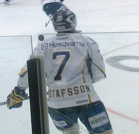 Per Gustafsson, icehockeyplayer